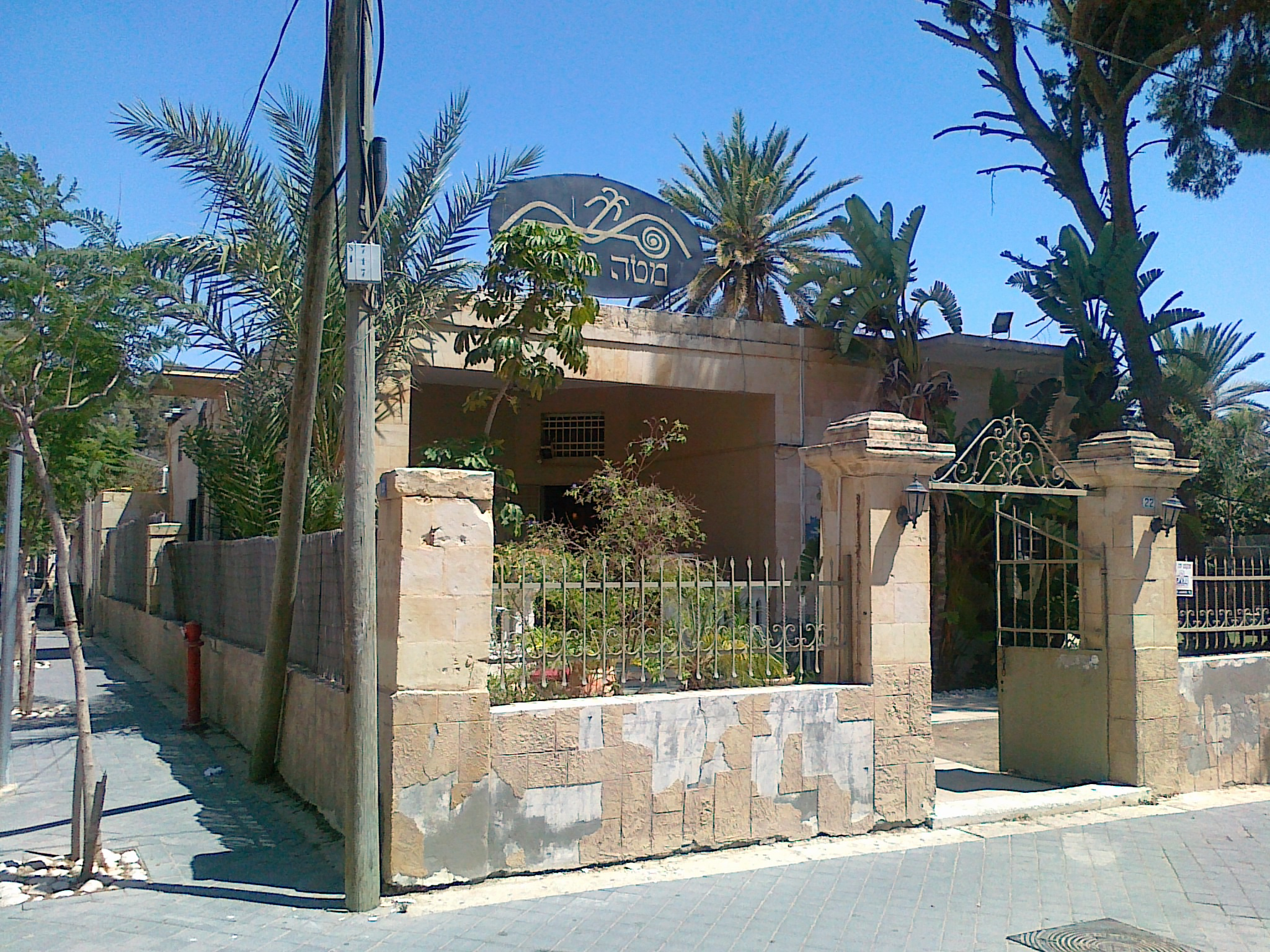 Beit-Hanegbi in The old city of Beersheba, 2013